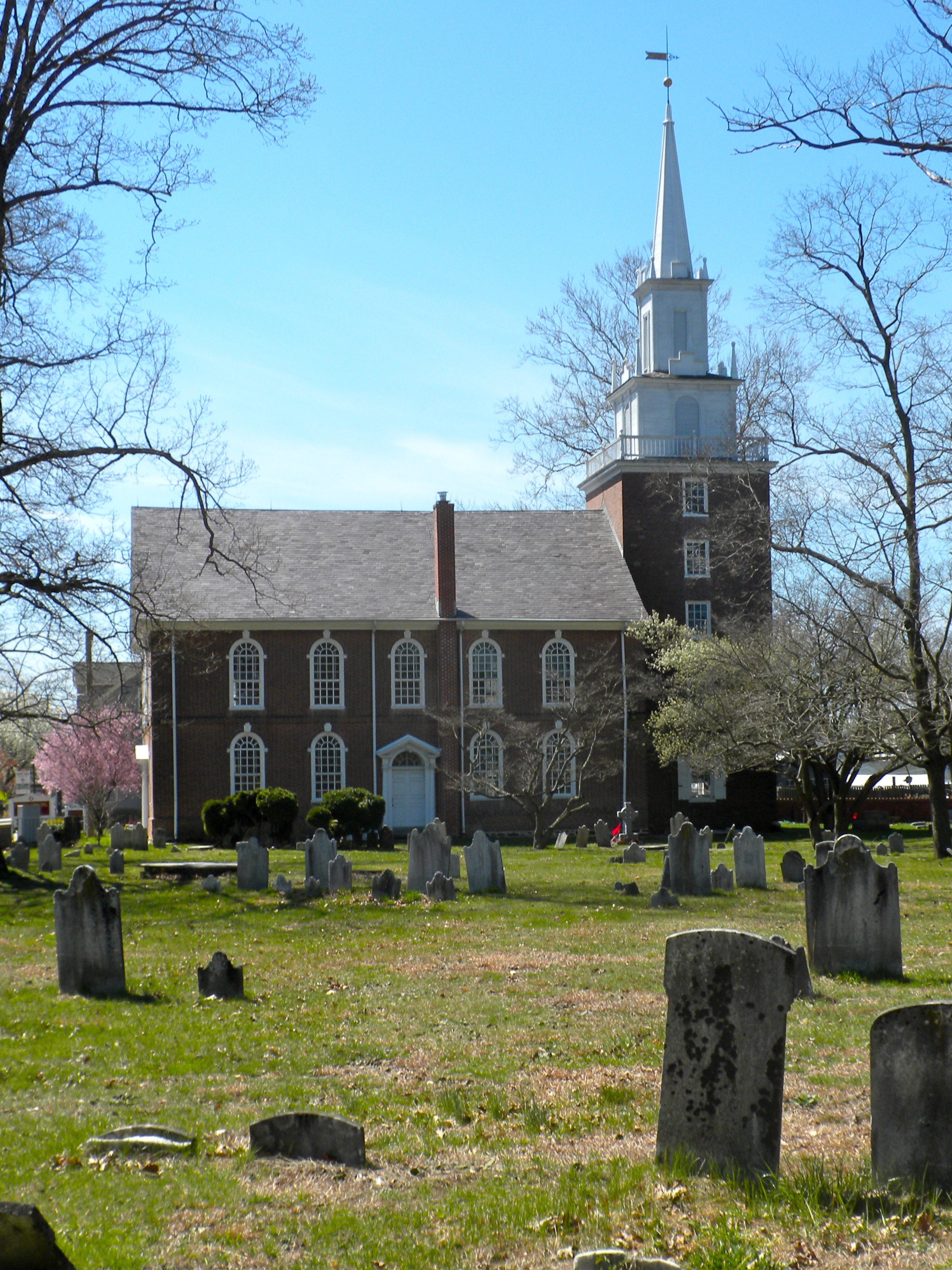 Old Swede's Church (Holy Trinity) in Swedesboro, NJ. On NRHP since January 29, 1973. At NW corner of Church St. and King's Hwy. Congregation founded about 1700 as a Swedish Lutheran Church with services in Swedish, but became Anglican then Episcopal Church built in 1786